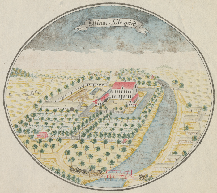 Ellinge Castle (Scania, Sweden) circa 1780